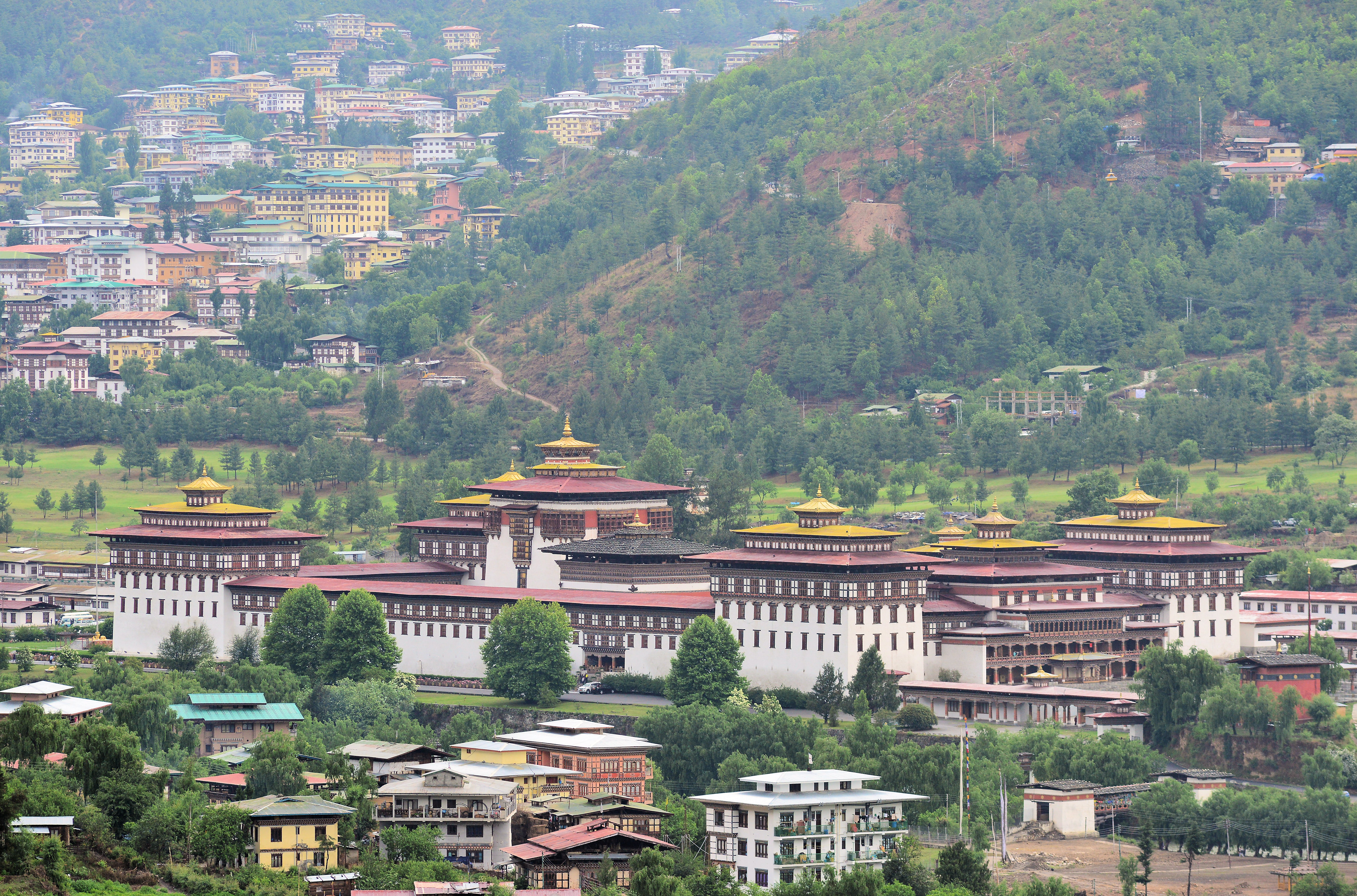 A view of Tashichodzong, Thimphu, taken from the NE